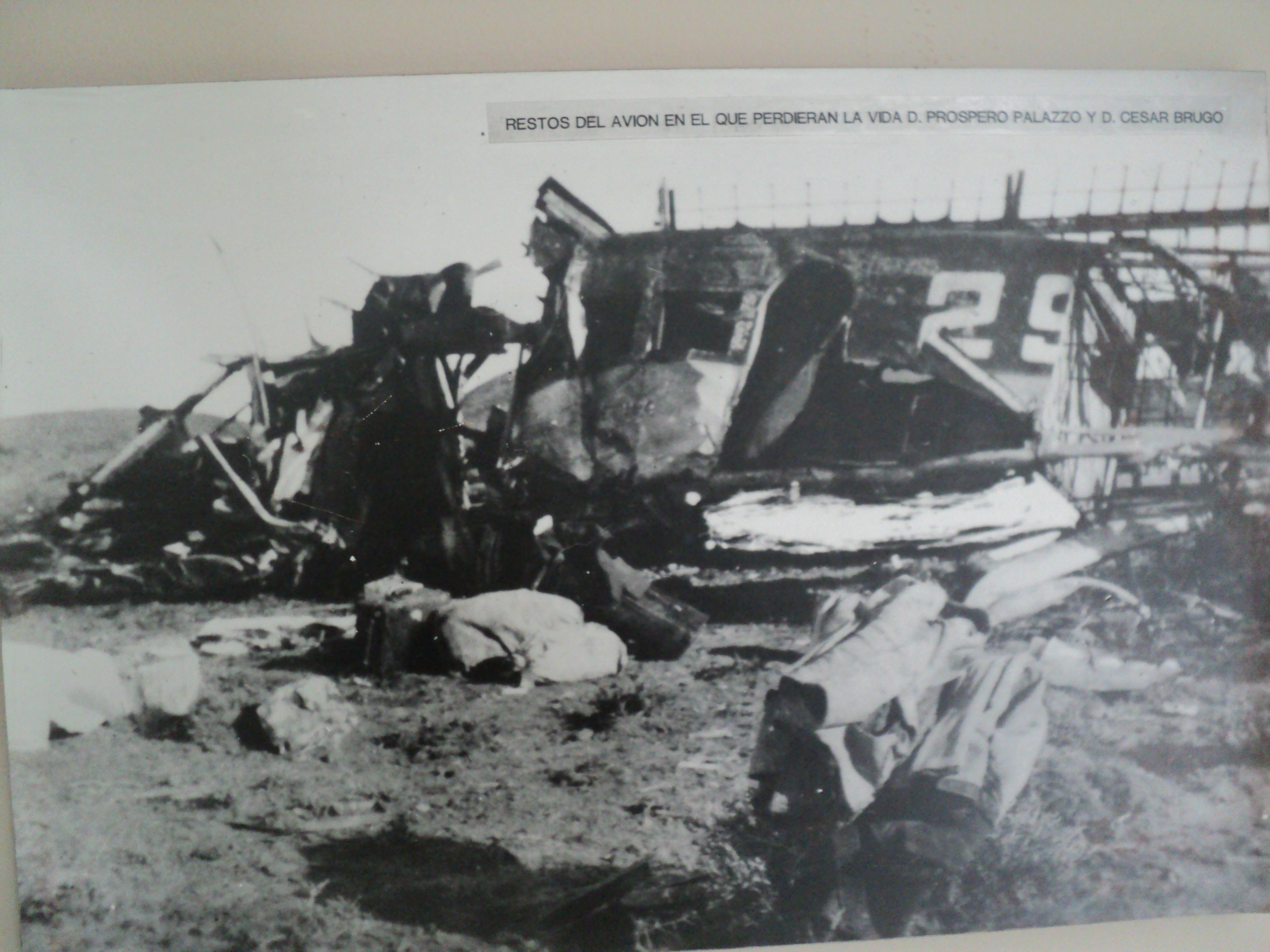 Debris of the plane flown by Argentine flyier Próspero Palazzo, after the accident that killed him in 1936.